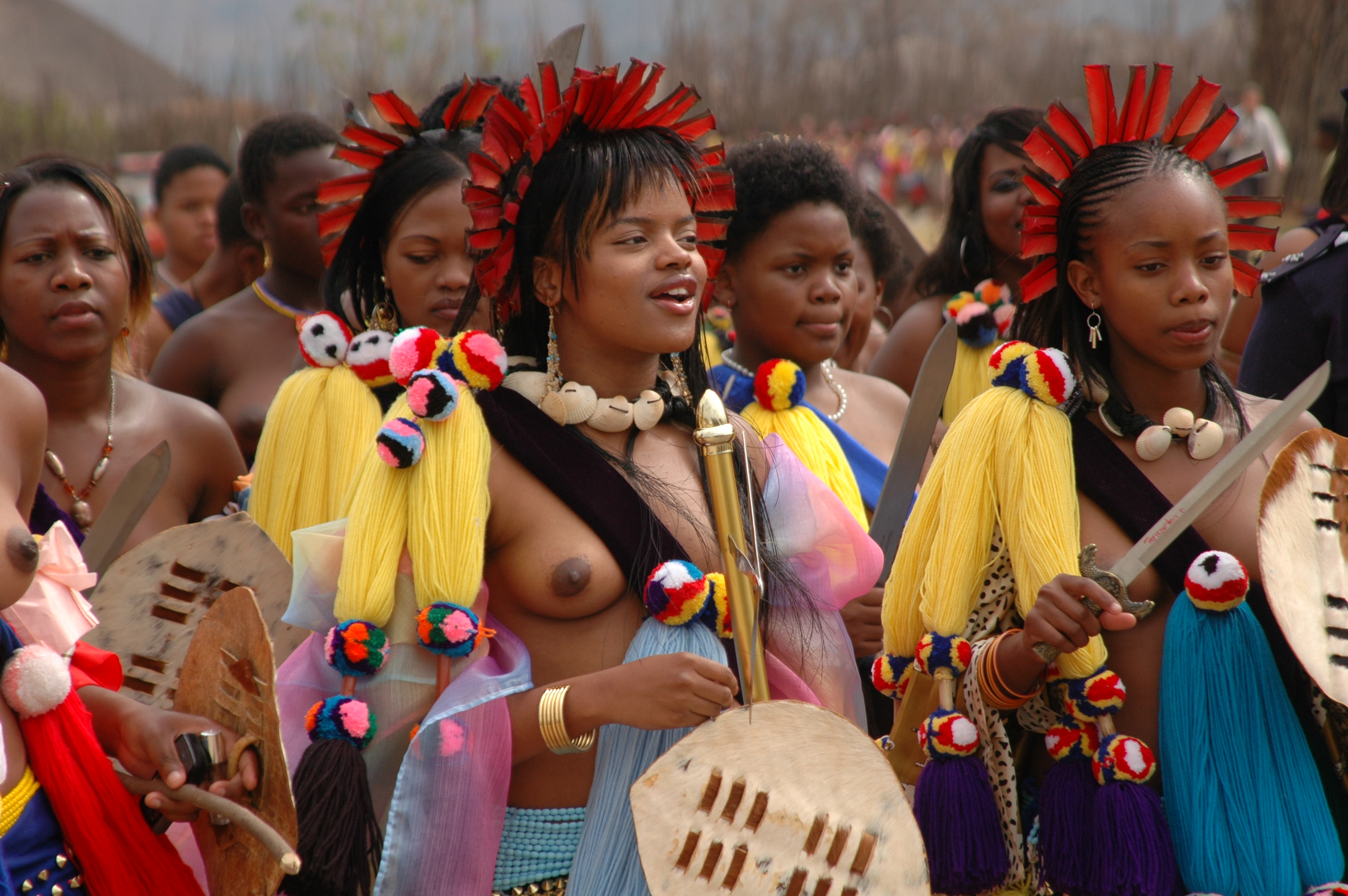 Princess Sikhanyiso Dlamini [left] and Temtsimba Dlamini [right] at the Reed dance festival in Swaziland 2006. She is the daughter of the first wife of the king od Eswatini.